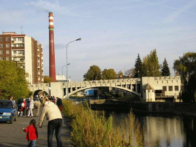 Masaryk Bridge Kolin CR